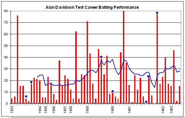 Test batting chart of Alan Davidson (cricketer). Red columns are the runs in the innings. Blue dots indicate not outs. Blue line is average in the last ten innings. Thanks to Raven4x4x for providing the template.